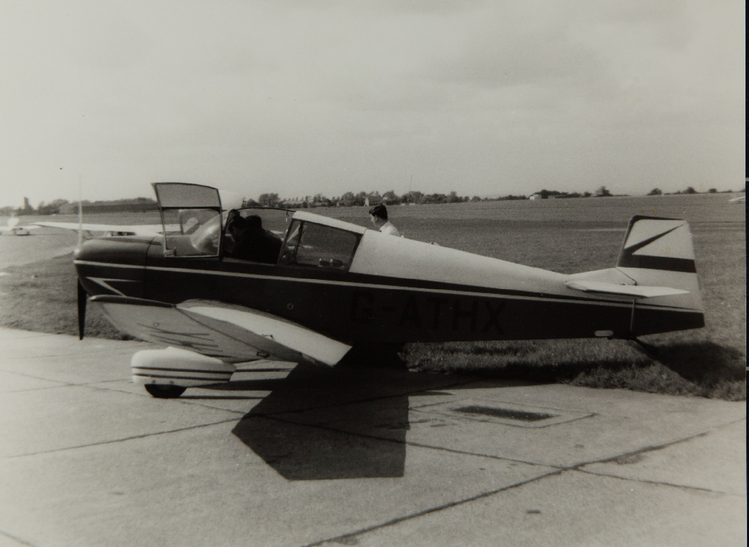 One of the few DR-100A ever produced. According to the CAA, the G-ATHX (earlier registered as F-OBMM in France) was built in 1959 by SAN with the serial number 74 and fitted with a Continental C90-14F engine.